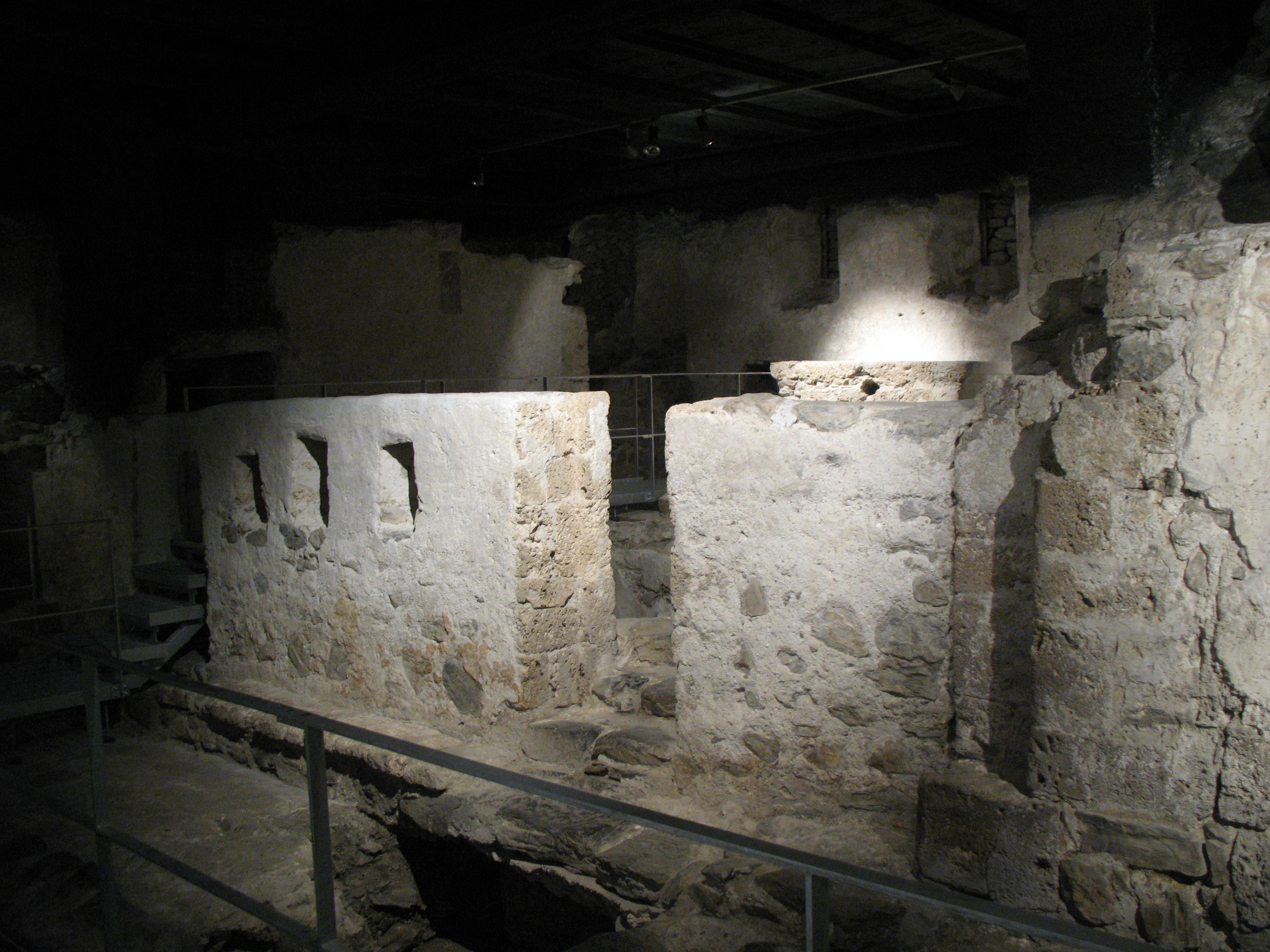 Ruins beneath the Evangelical Reformation Church, Meiringen, Switzerland